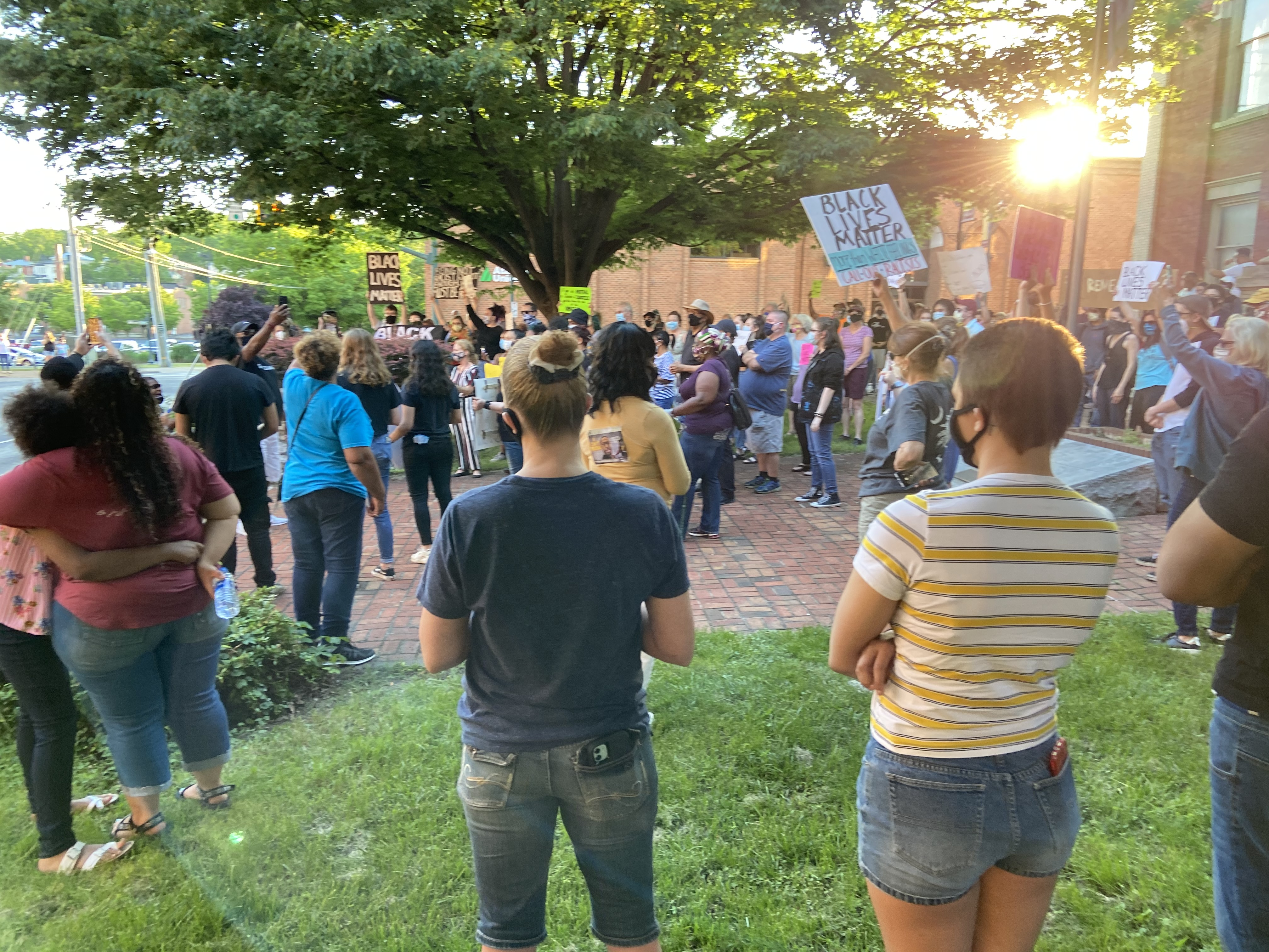 Image of protestors and signs at a demonstration in Staunton, Virginia on May 30, 2020